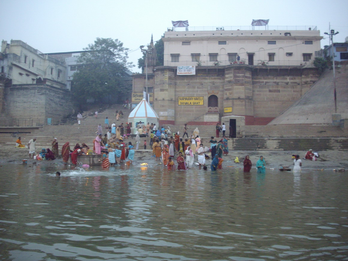 Early morning holy bathing on Dev deepavali day of Karthik Purnima.